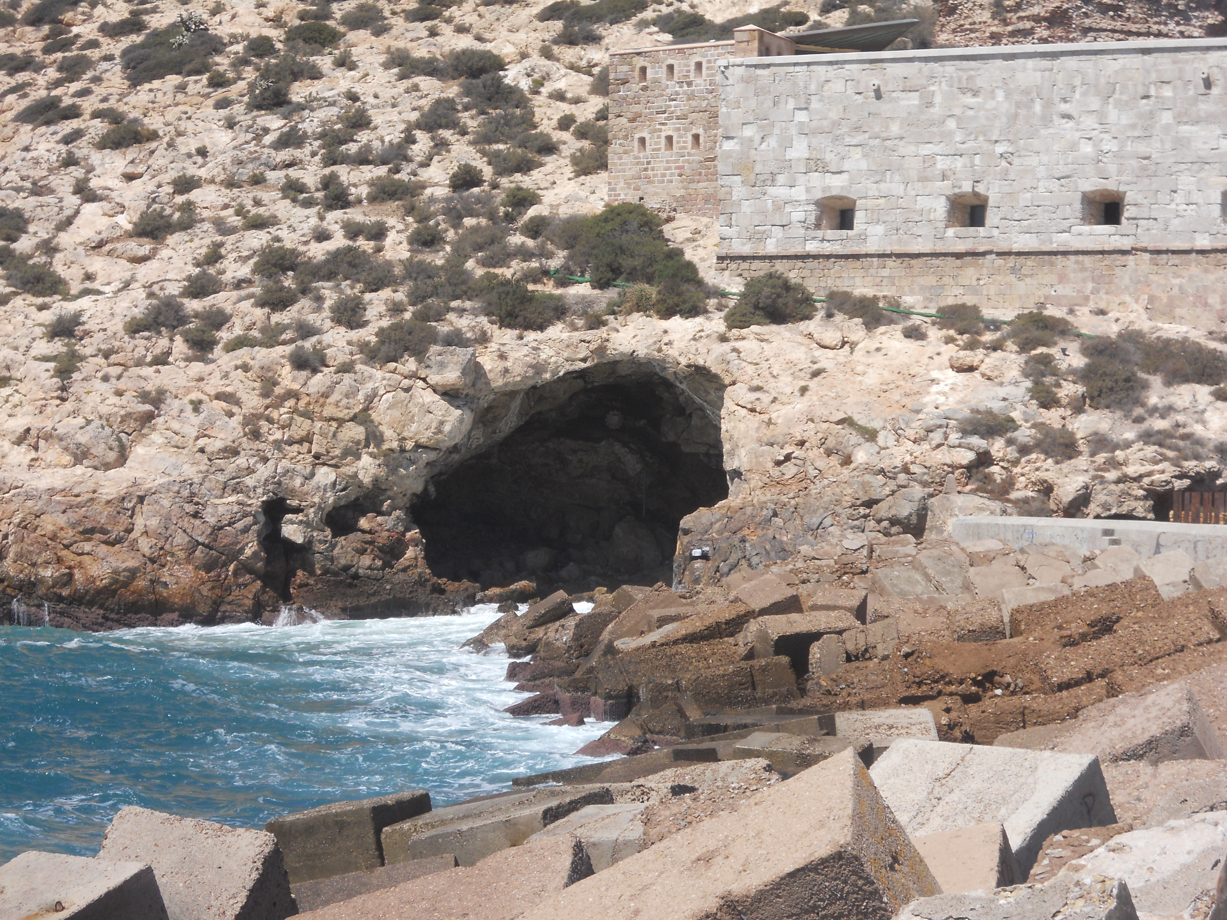 The Aviones Cave, under the Navidad Fort, in the bay of Cartagena (Spain).